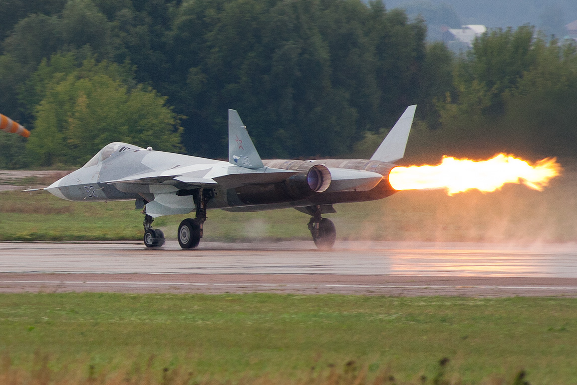 PAK FA T 50 compressor stall on MAKS 2011